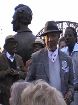 Ed Hamilton at the June 2009 Lincoln Statue Dedication at Louisville Waterfront Park. This is a cropped still from a video that I took during the event.